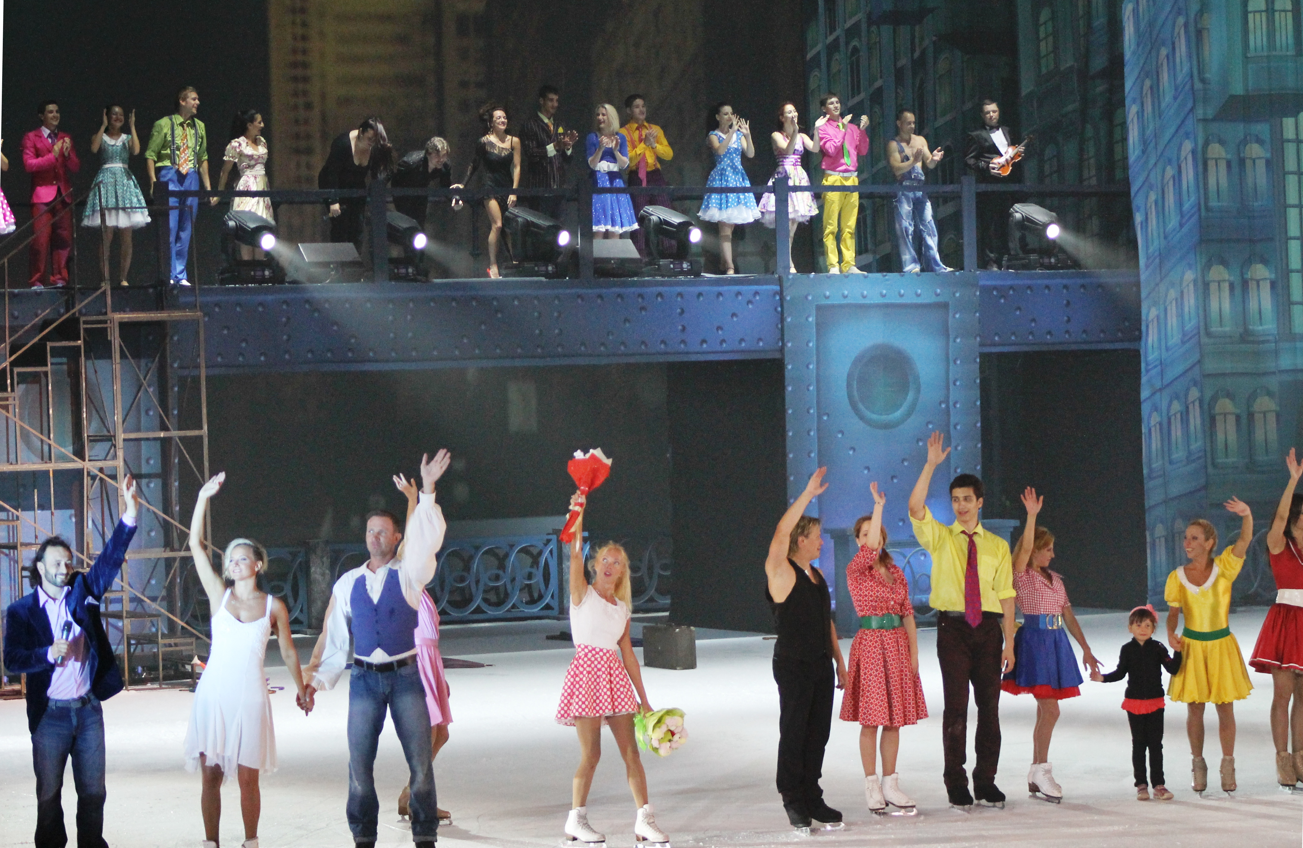 Final scene from ice show "The small stories of a big city"